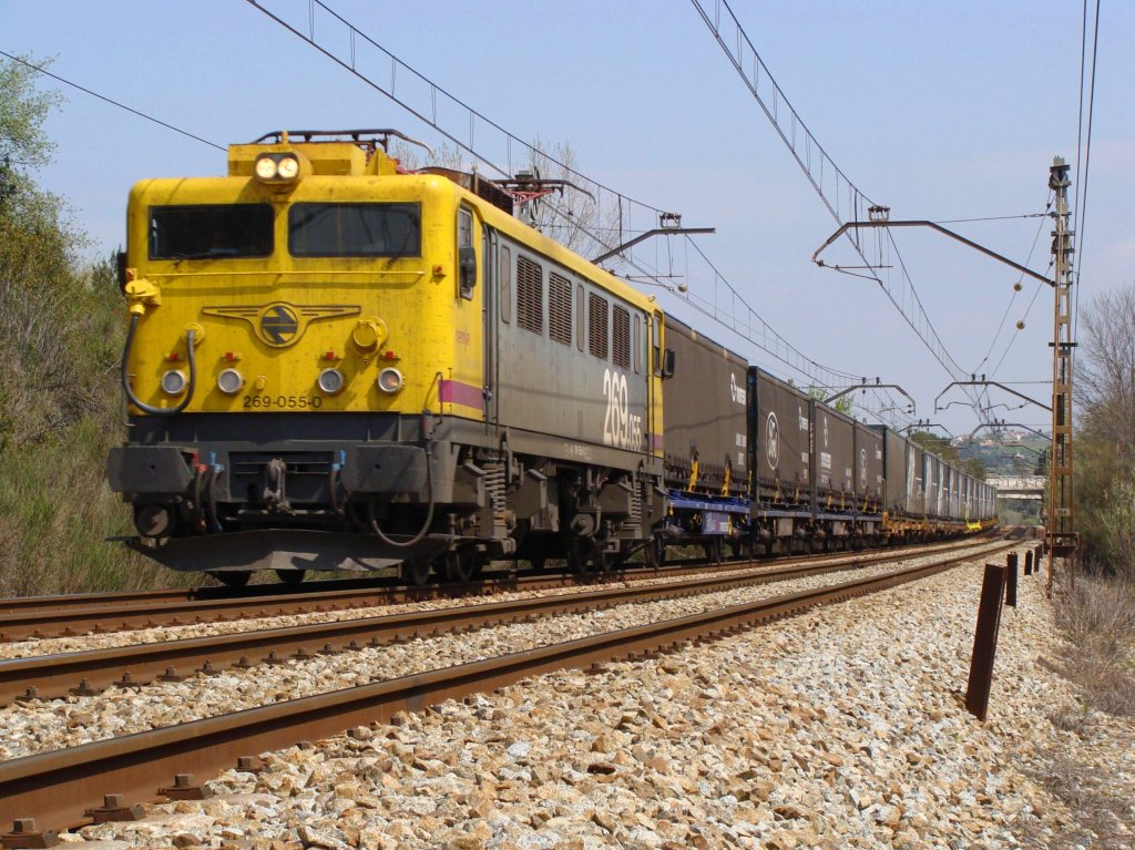 A train going from Cerbère to Almussafes, near from Gelida (Catalonia). This train goes to the Ford factory in Almussafes, near from València.